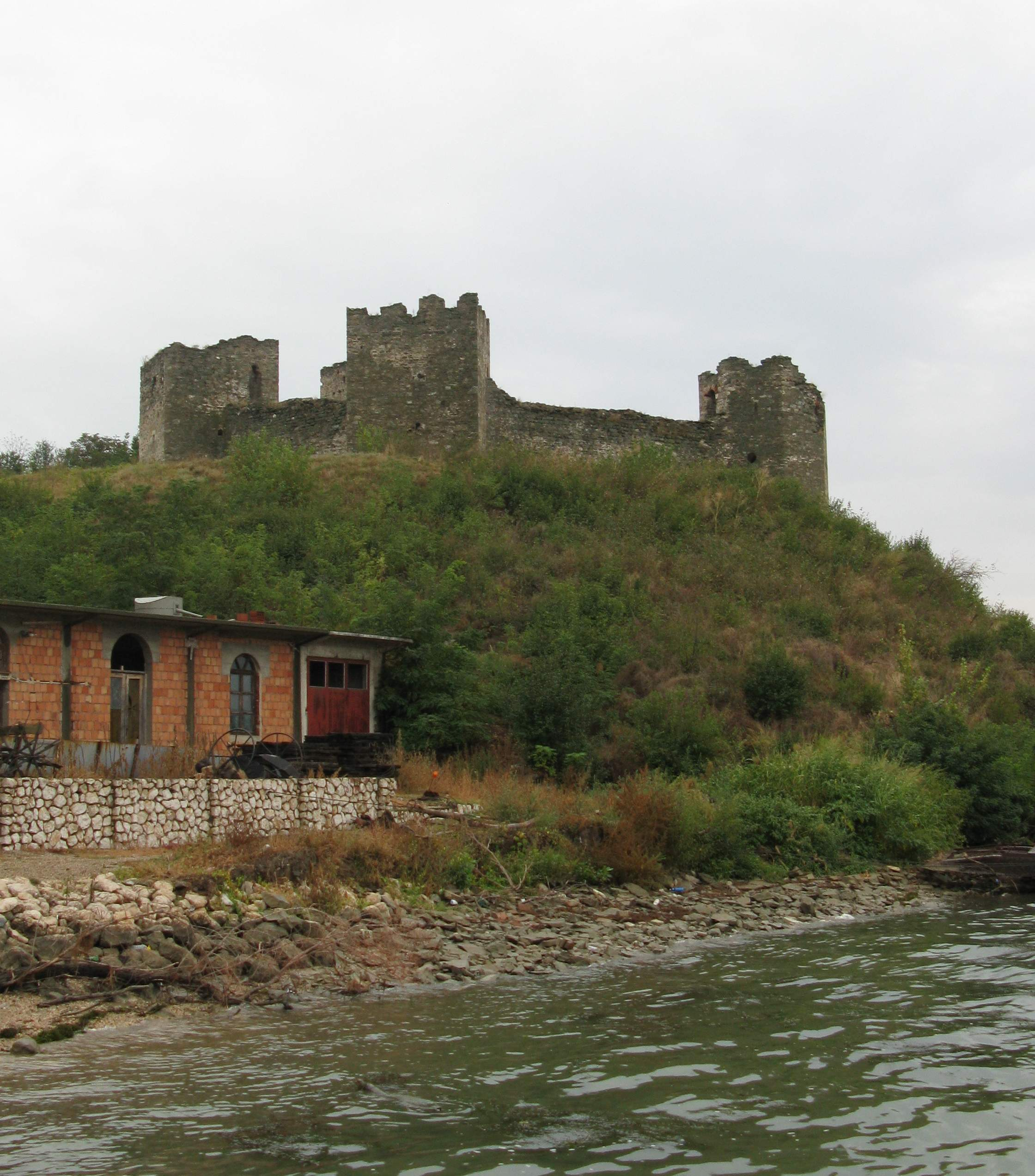 View on Ram fortress from Danube,Serbia.